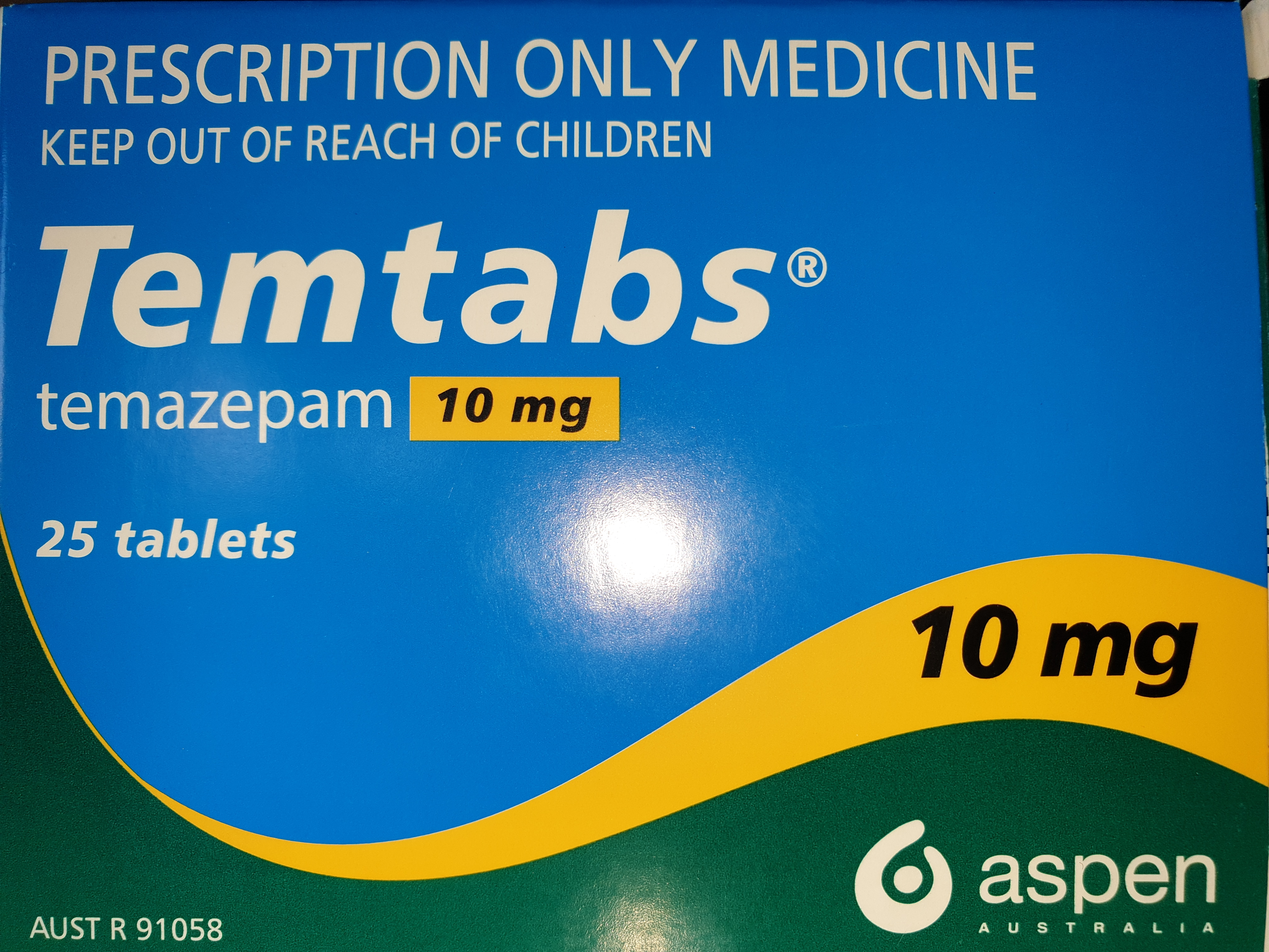 Temezpam under the brand name Temtabs (common brand in Australia)